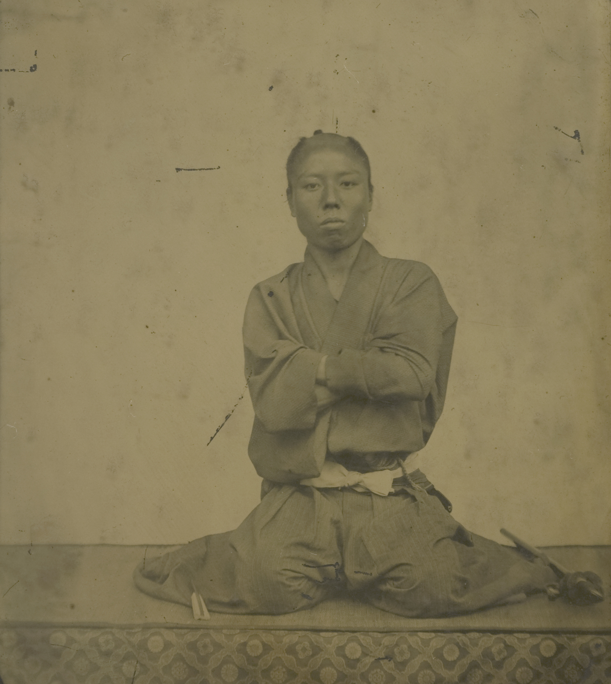 Nomura Yasushi as a Choshu samurai, circa 1867, from the Yamaguchi Prefectural Archives, Yamaguchi, Yamaguchi, Japan